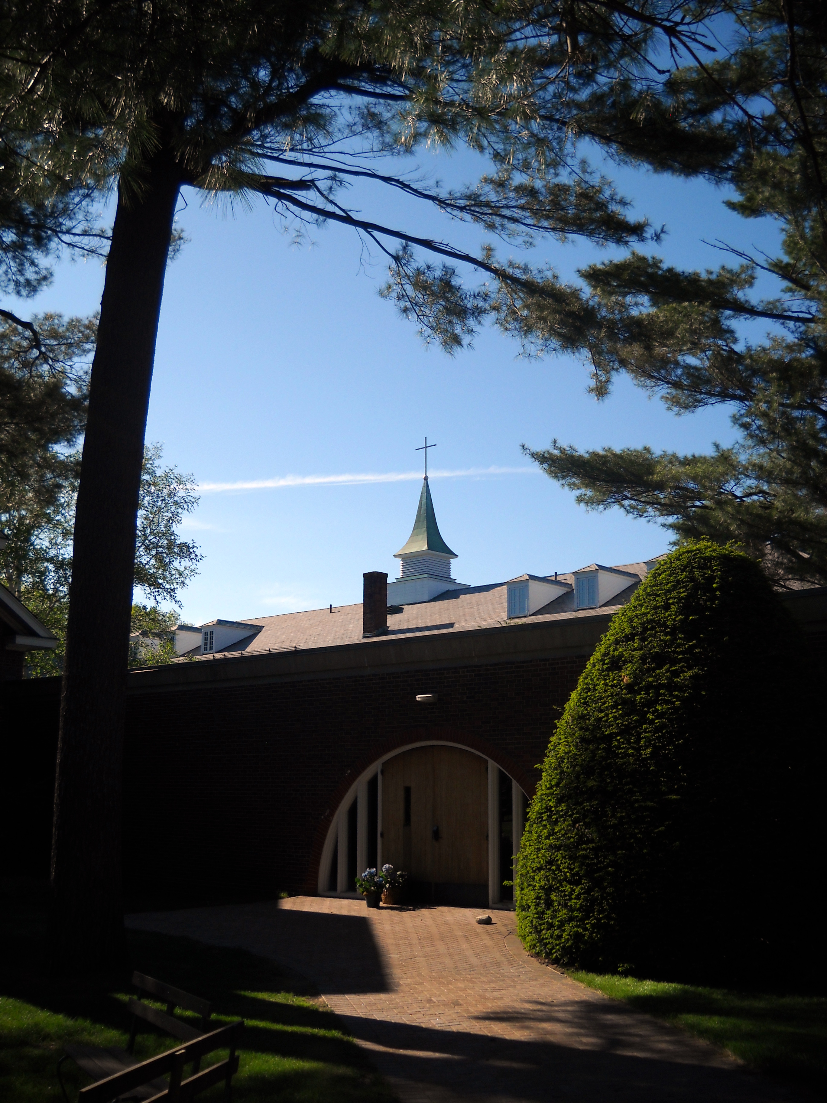 South Entrance into the cloister garden of Saint Anselm Abbey in Manchester